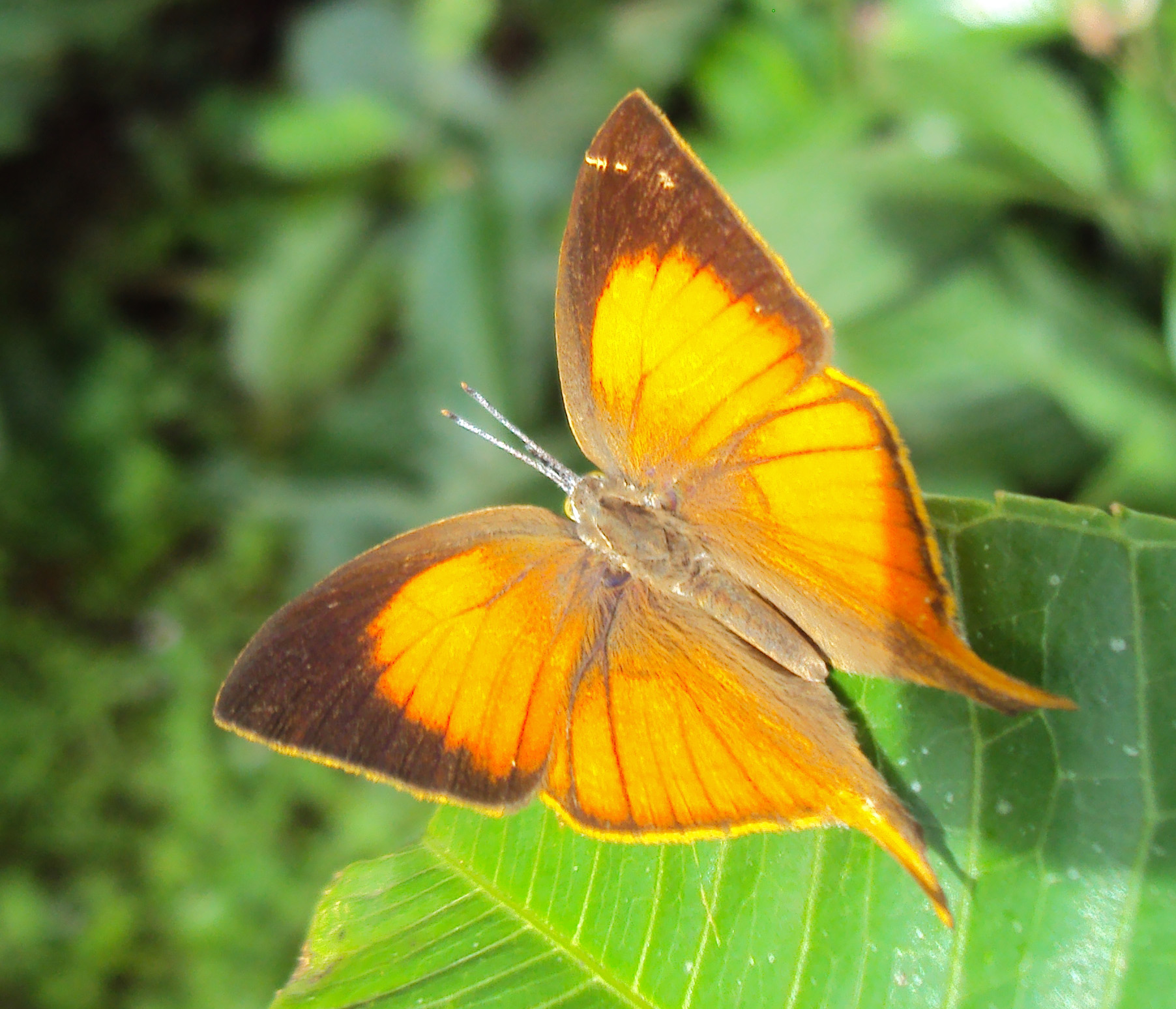 Loxura atymnus - Yamfly